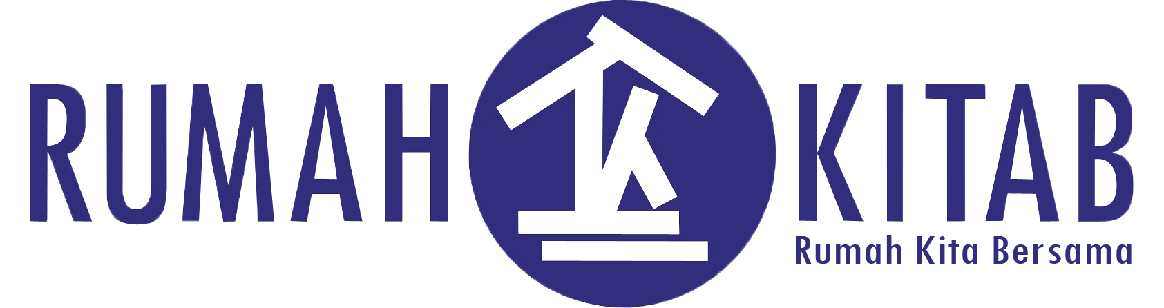 Rumah Kita Bersama Foundation logo